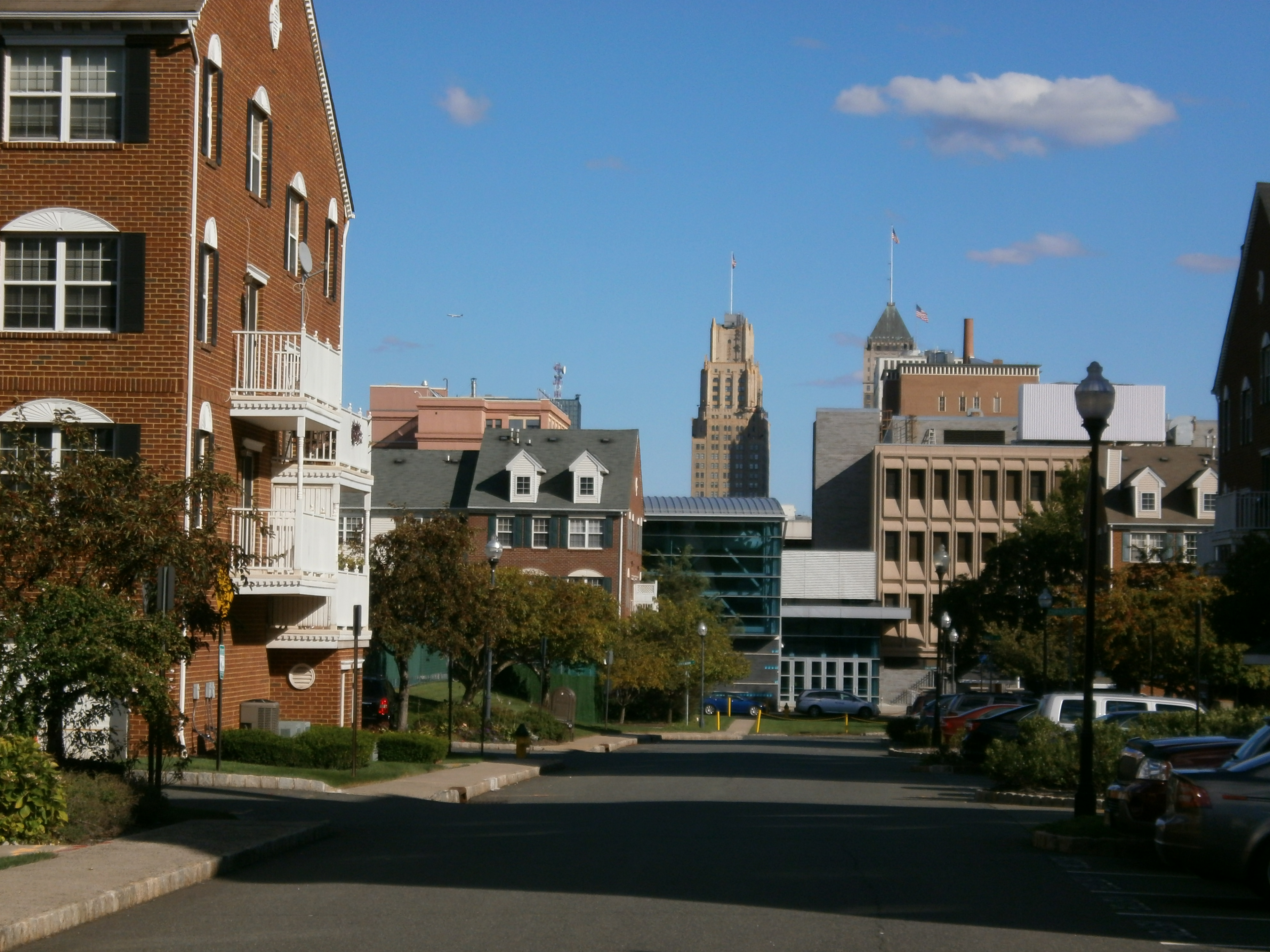 University Heights looking east to NJIT and the Eleven80 building downtown in Newark